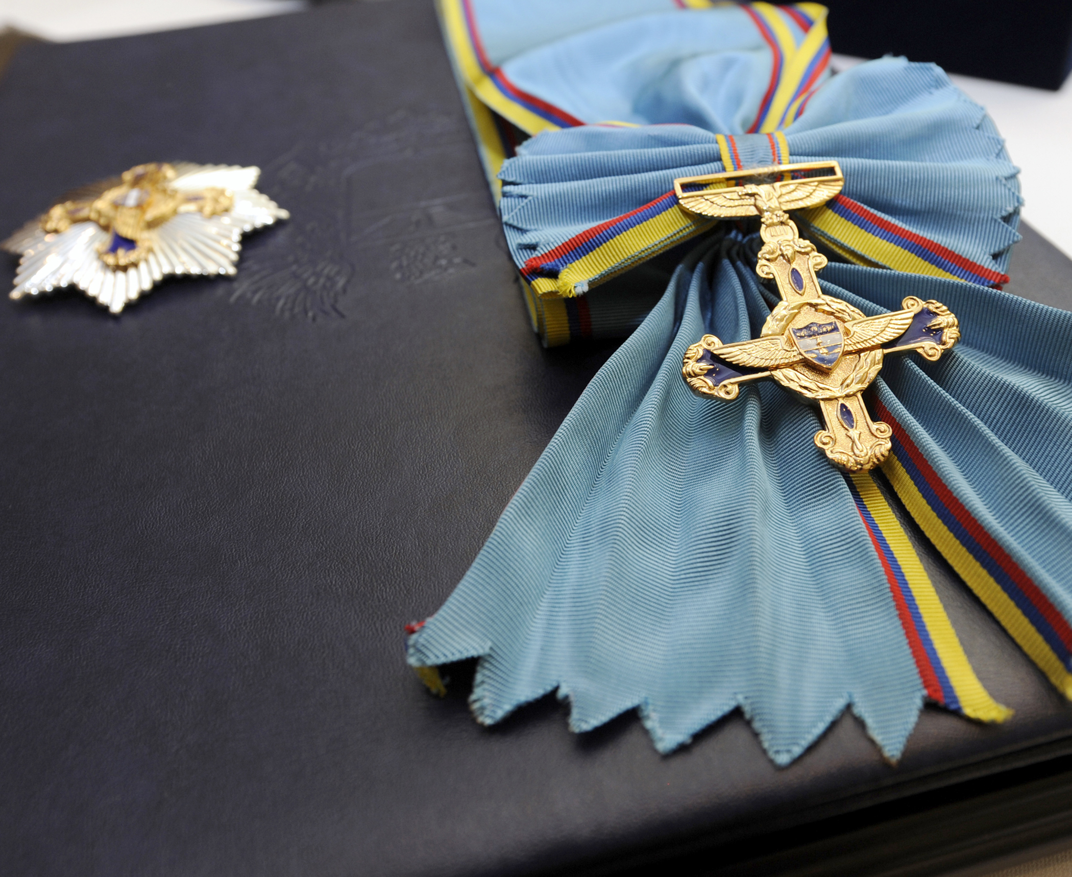 The award of the "Cross of the Air Force to the Aeronautical Merit degree Grand Cross" was presented by the Colombian air force chief of staff to Air Force Chief of Staff Gen. Norton Schwartz June 15, 2010, in Washington, D.C. The award was presented to General Schwartz during "Conference of Chiefs of American Air Forces" (CONJEFAMER).